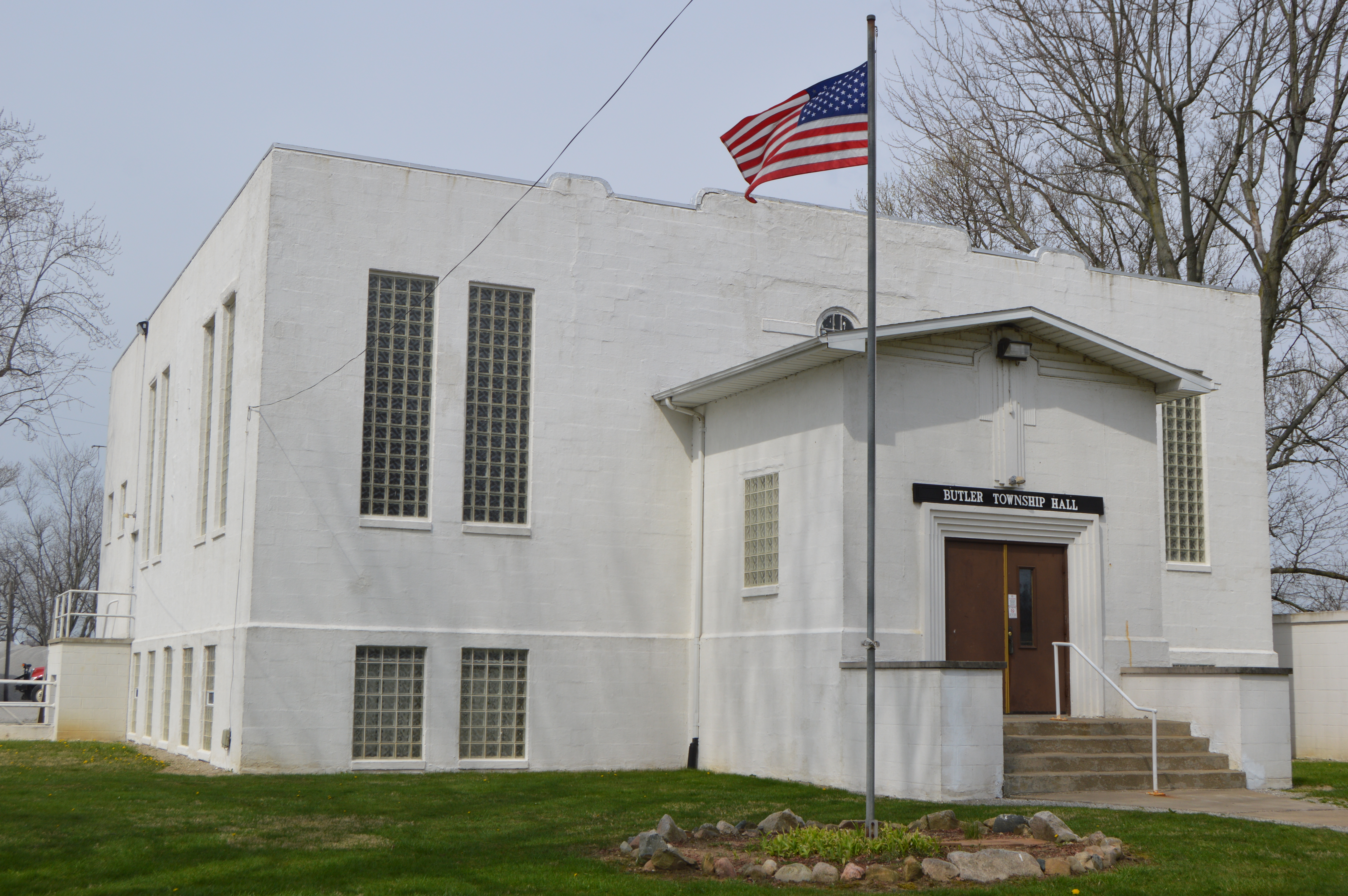 Front and southern side of the Butler Township hall (formerly a school), located on Olivesburg-Fitchburg Road at Adario, Ohio, United States. It was built in 1927.